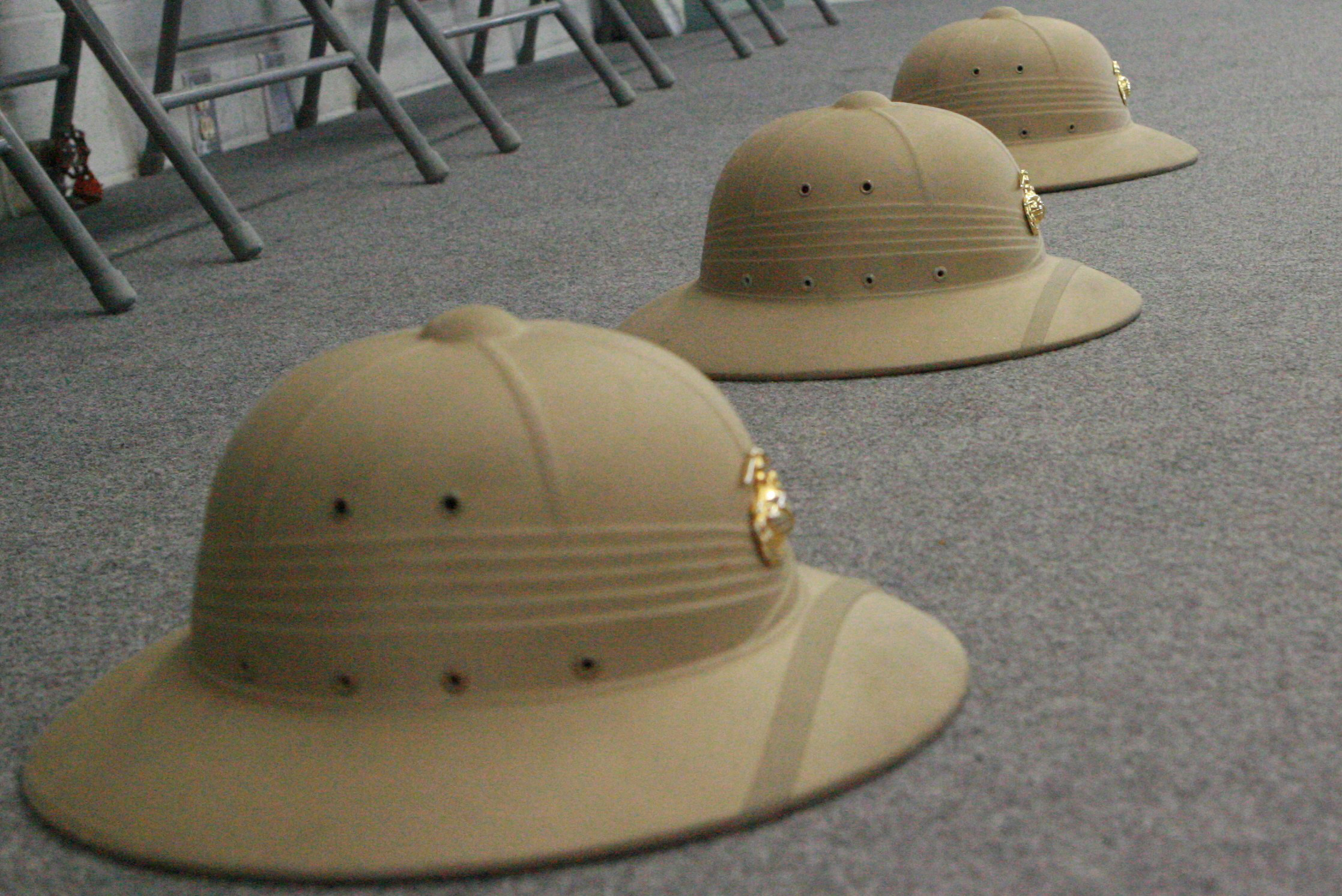 Pith helmets lay covered down before the graduation ceremony of Combat Marksmanship Course Class 01-10 at the Combat Center’s Marksmanship Training Unit Feb. 10. The helmets, called "elephant hats," were first issued to the 1st Marine Division while on deployment to Guantnamo Bay in 1940. It would later be worn by drill instructors aboard Marine Recruit Depots, until 1956 when it was replace by the “Smokey” field hat. Today the pith helmet is traditionally only worn to identify combat marksmanship coaches.